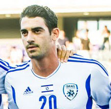 . Omri Ben Harush, UEFA U21s Football championships in Israel between Israel & Norway Photo By David Katz